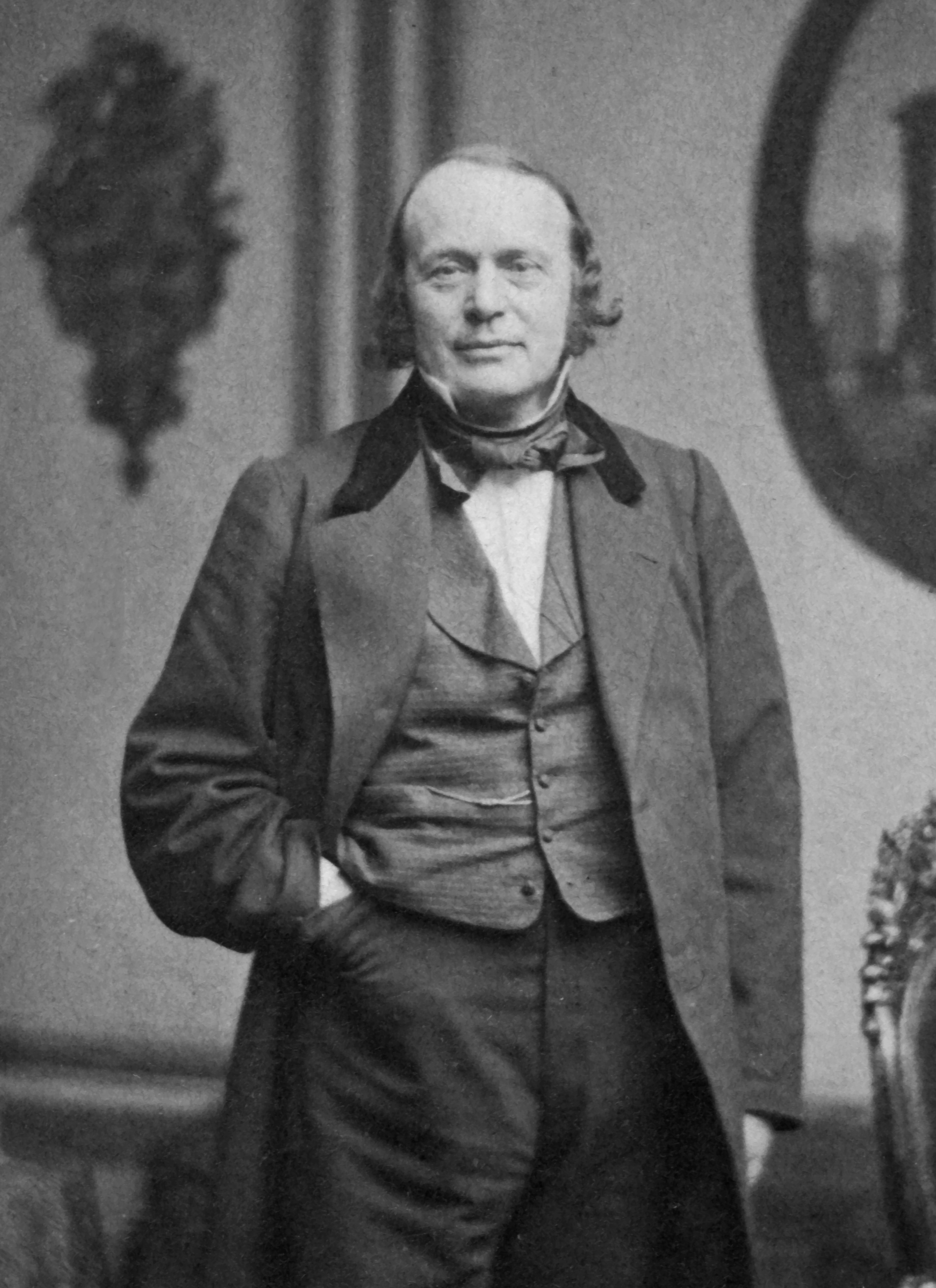 Louis Agassiz (1807-1873)